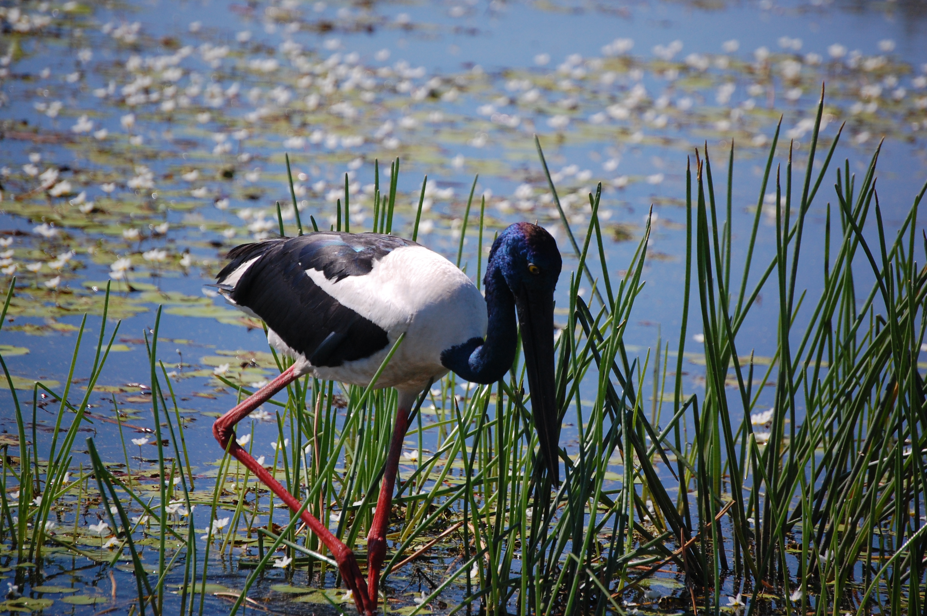 Jabiru (Ephippiorhynchus asiaticus) wading in Yellow Waters in Kakadu National Park